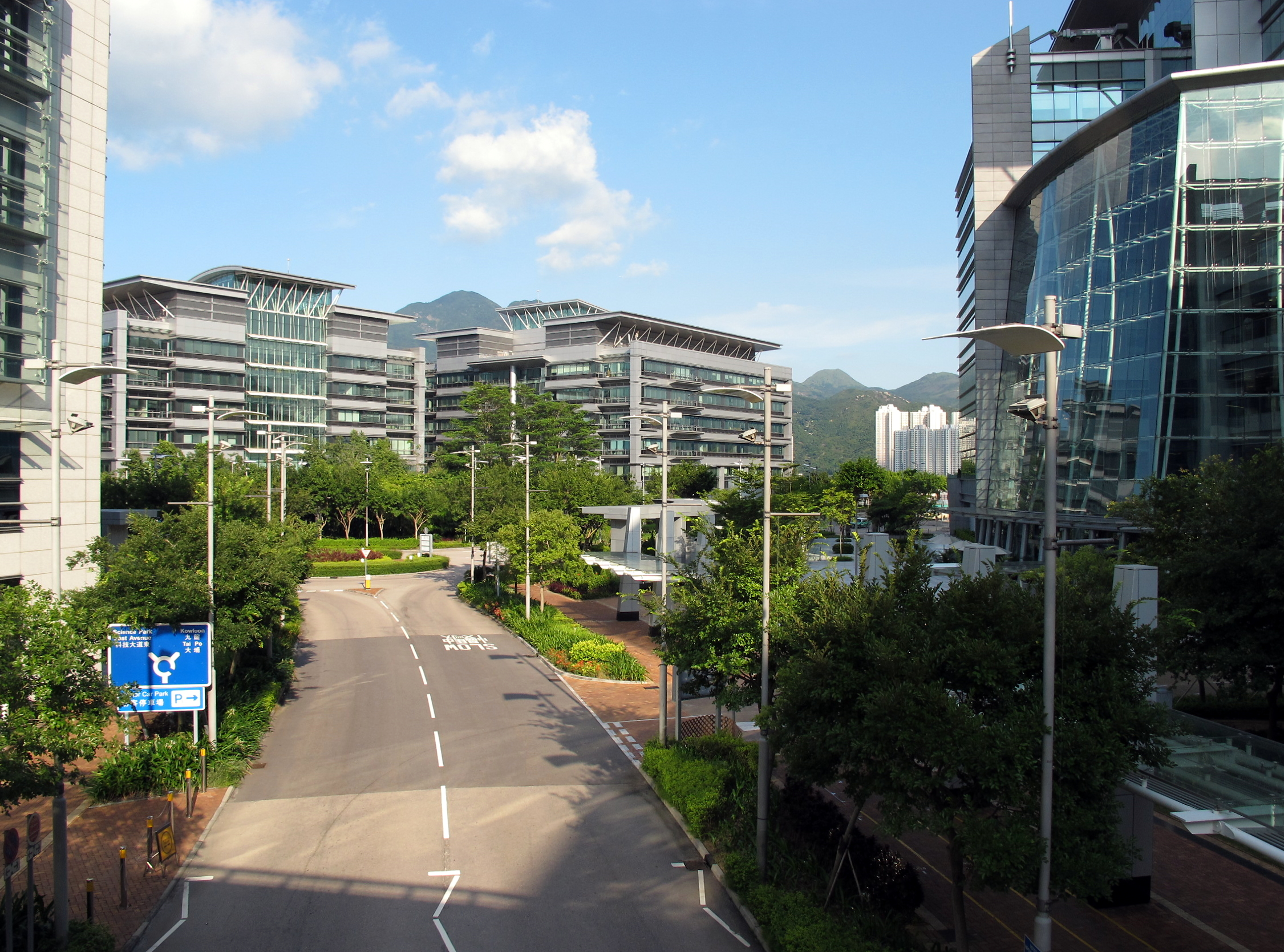 Hong Kong Science Park Phase 1